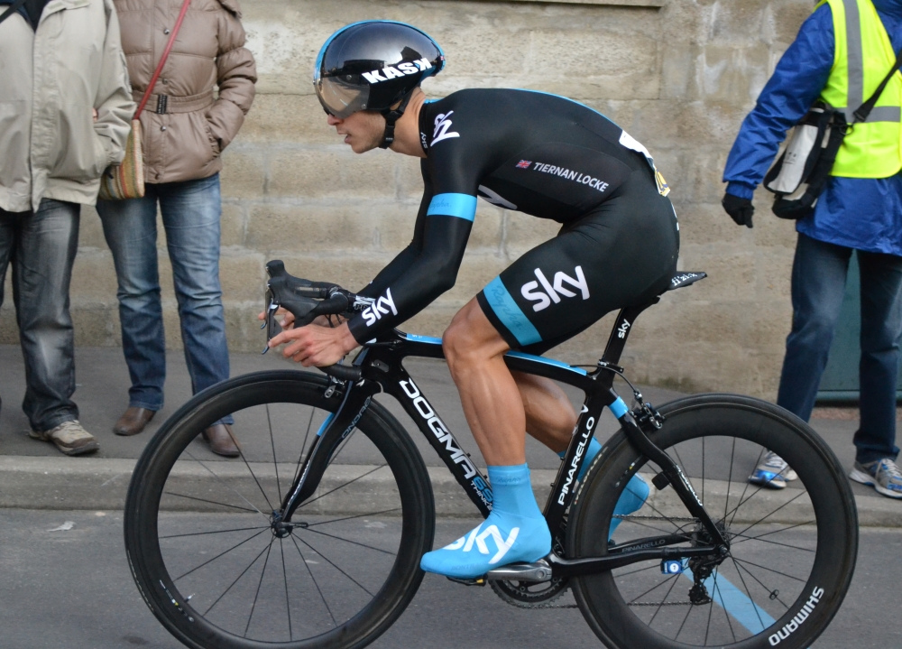 Jonathan Tiernan-Locke